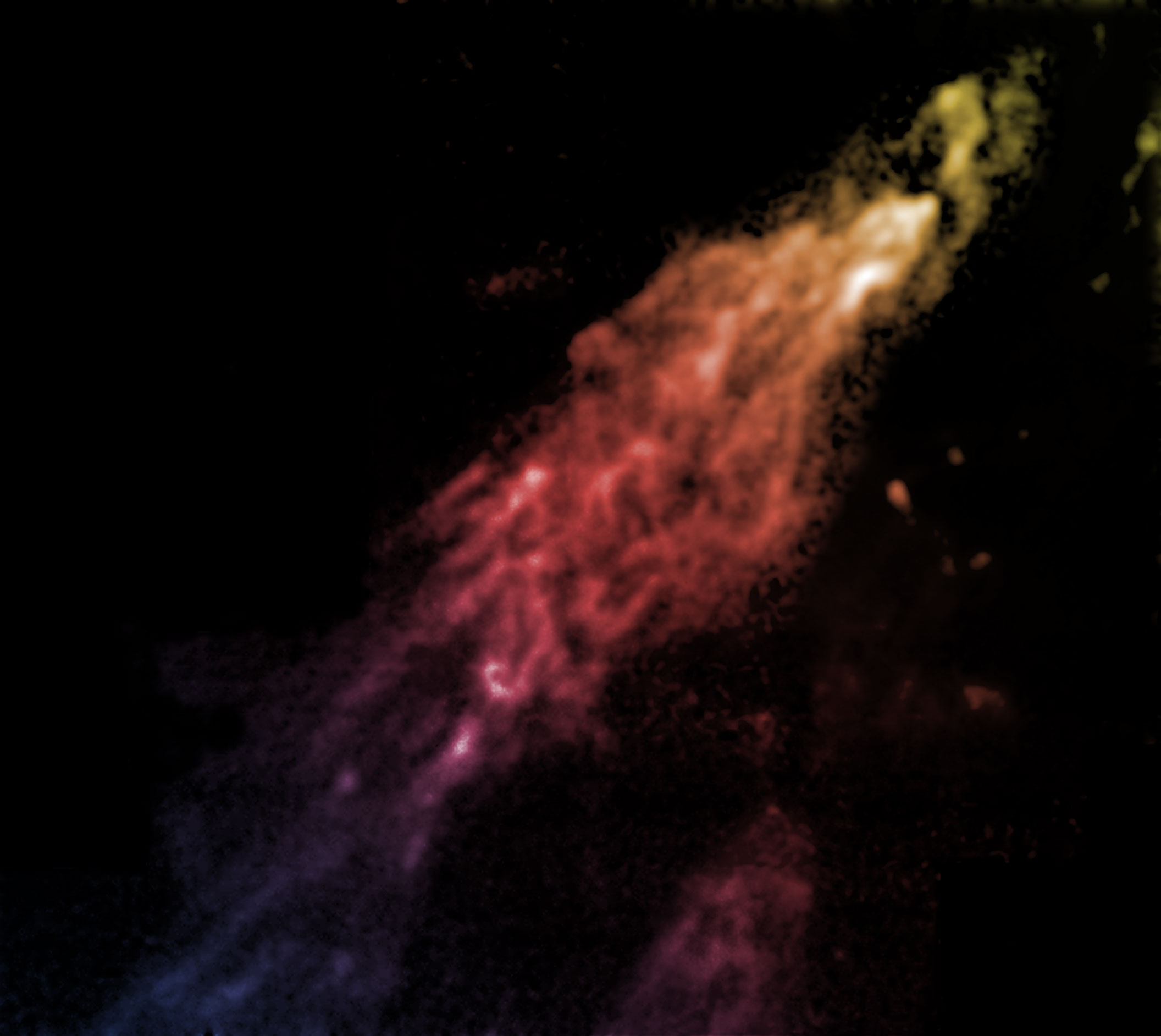 A hydrogen gas cloud on the outskirts of the Milky Way Galaxy.